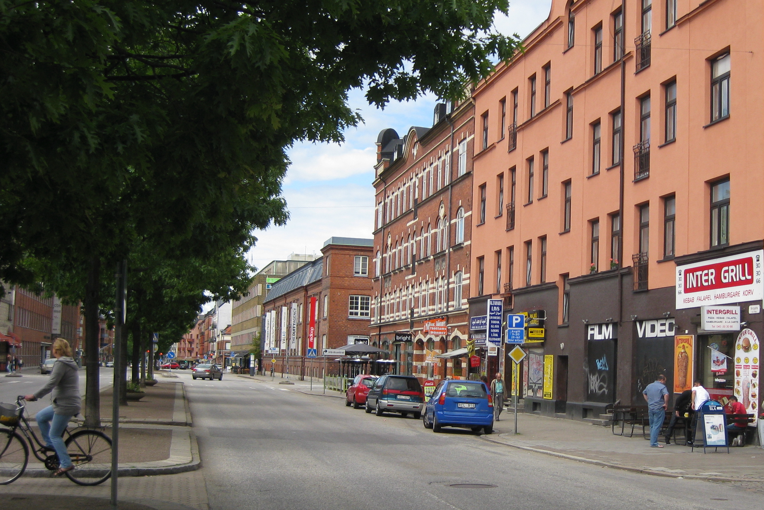 Bergsgatan in Malmö, Skåne, Sweden.